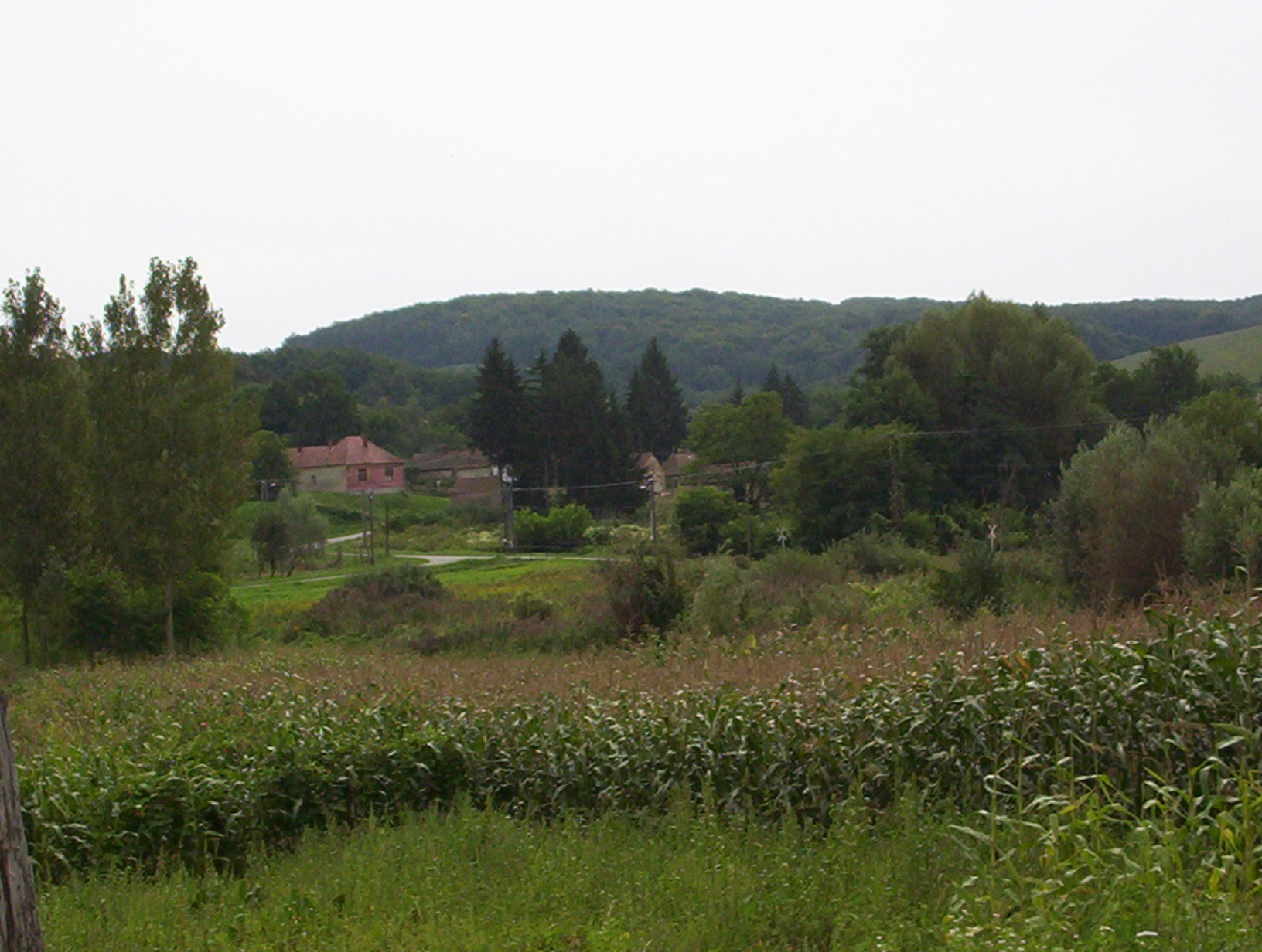 Surroundings of Oltárc, Hungarian village in Zala county. Author: User:Mustapilvi